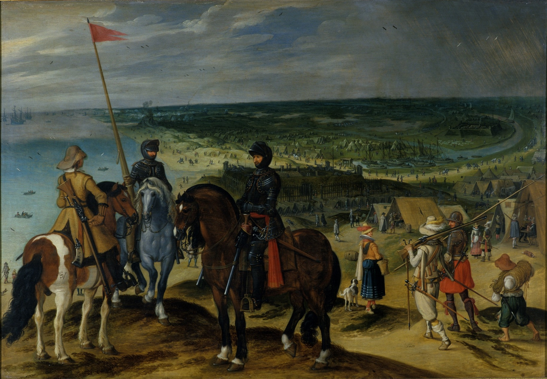 War picture from the struggle of the Dutch against Spain, probably the siege of Ostend.